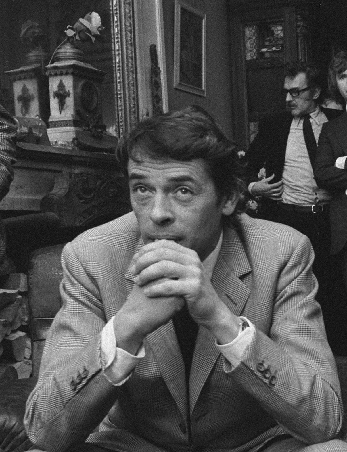 Jacques Brel in Baarn, Netherlands, 26 October 1971